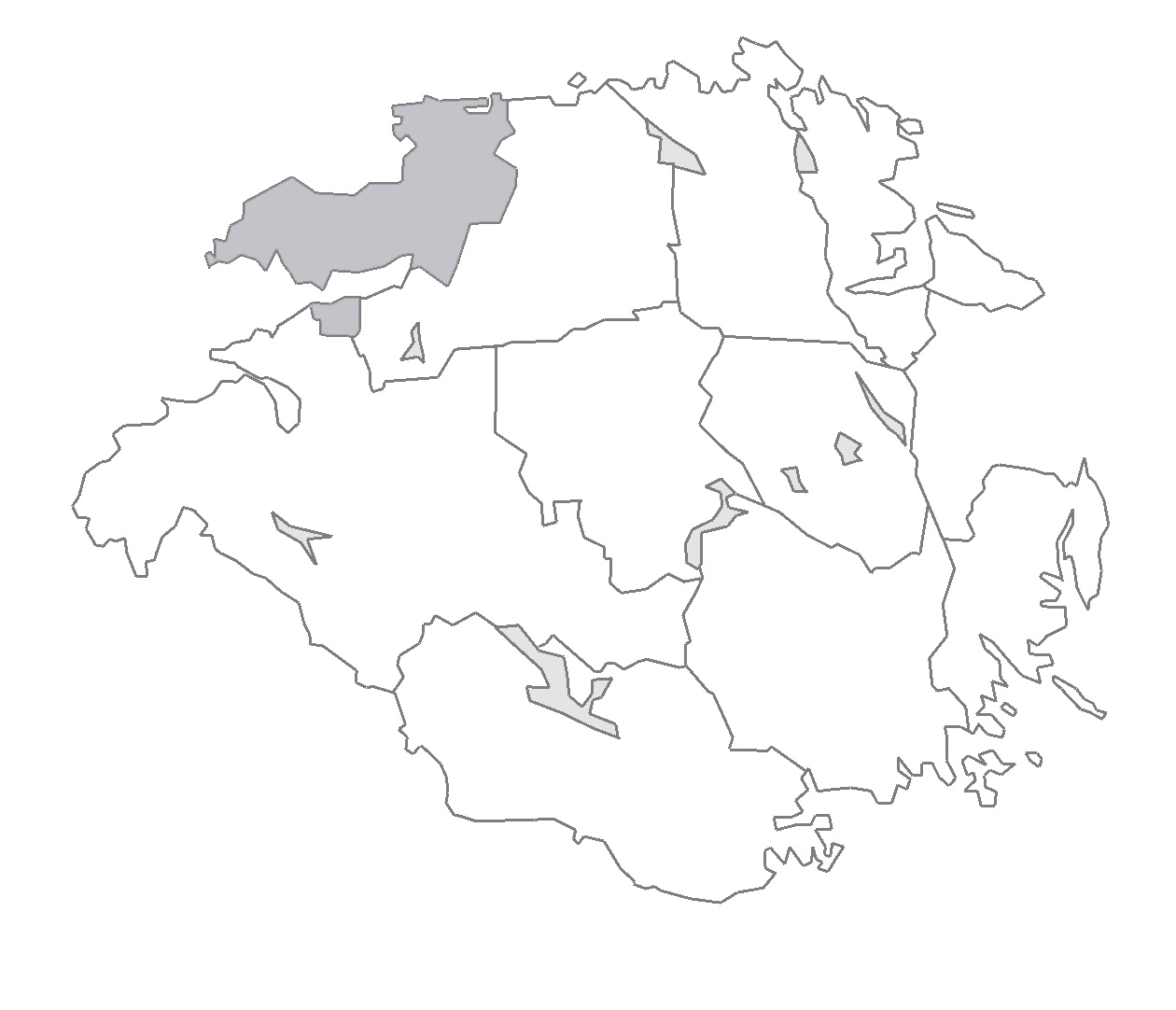 Map describing the location of Västerrekarne Hundred in Södermanland County, Sweden.